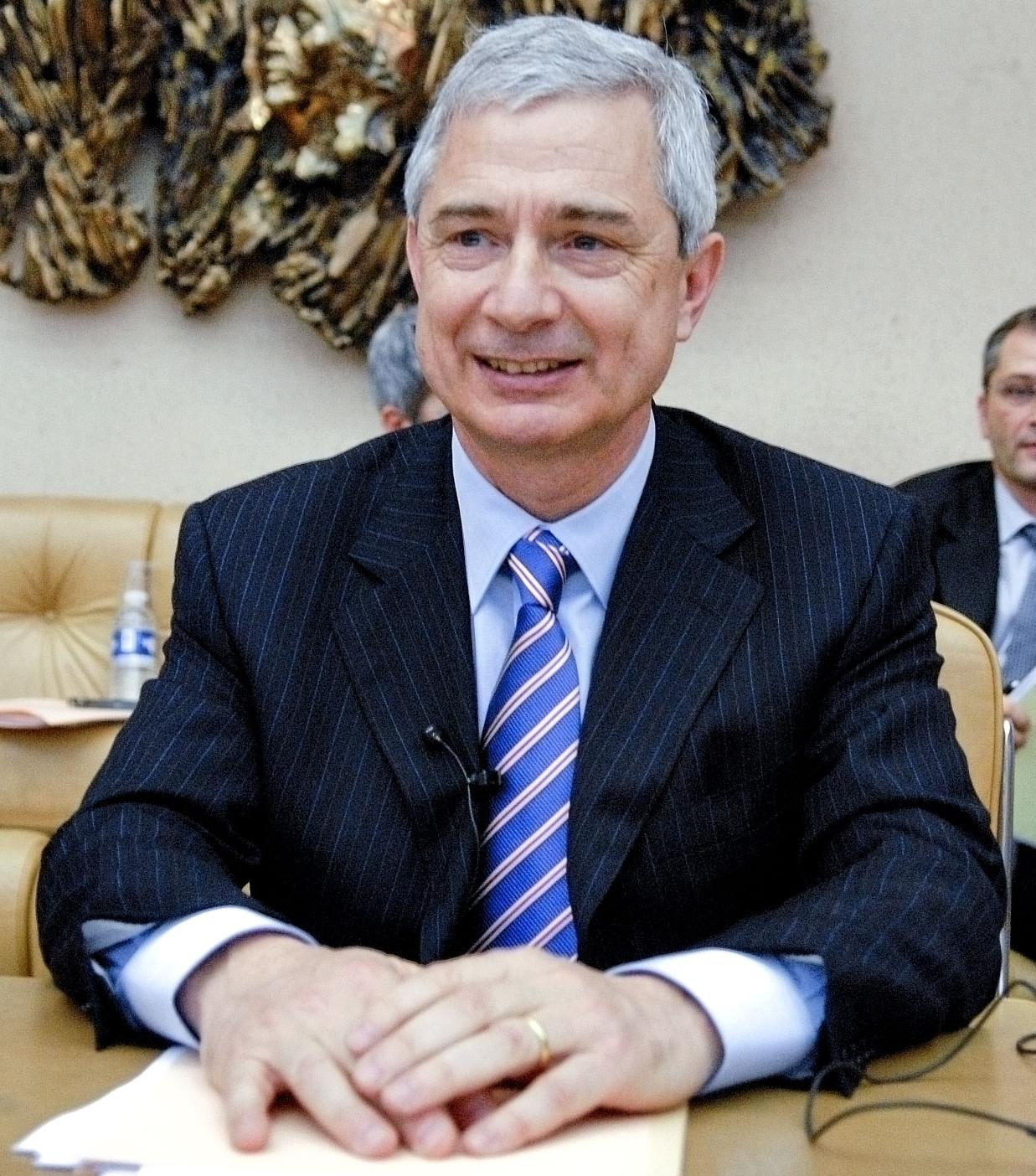 Claude Bartolone, former French minister